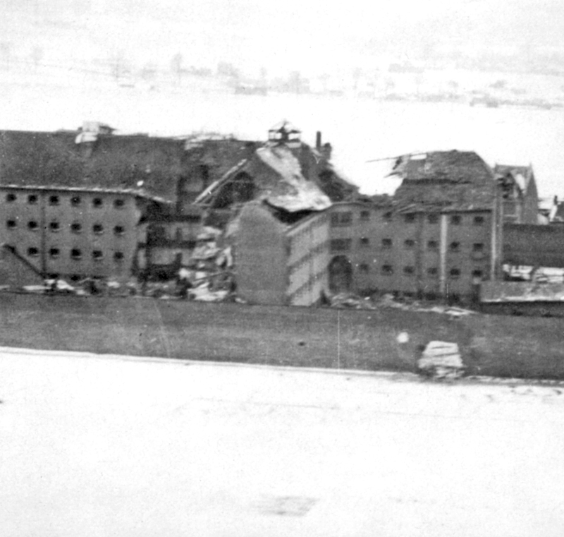 Operation Jericho. A PRU picture of the Amiens Prison taken shortly after the raid, showing breached perimeter wall and damage to the prison buildings. Note: the ground is white due to the presence of snow. IWM Cat C 4737 description "Operation JERICHO: the daylight raid by 18 De Havilland Mosquito FB Mark VIs of No. 140 Airfield, No. 2 Group, led by Group Captain P C Pickard, to free resistance members awaiting execution in Amiens Jail, France. Low-level oblique photographic-reconnaissance aerial taken two days after the raid, showing the damaged prison from the north, and with the breach blown in the north wall visible in the right foreground"